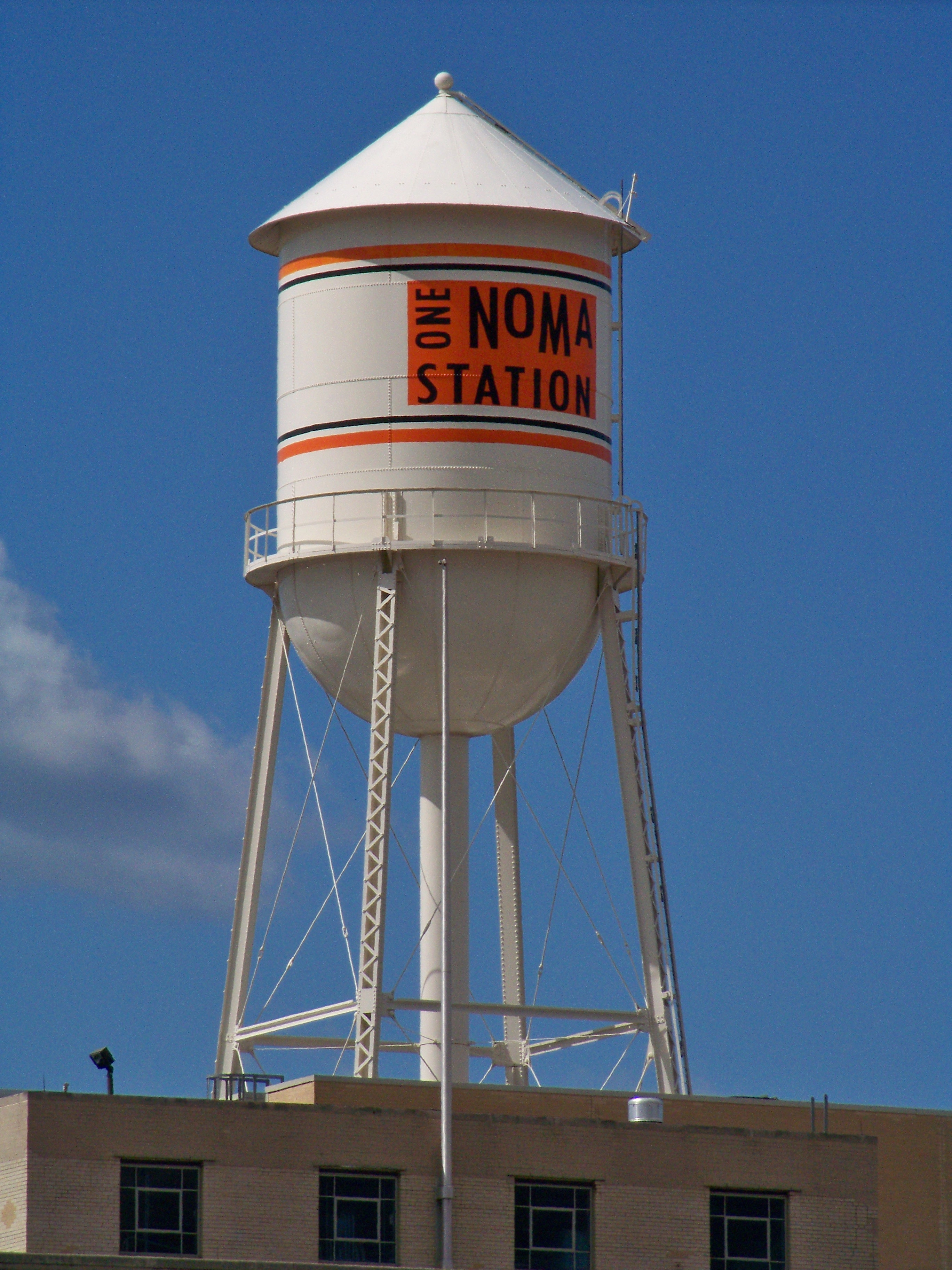 Tower on the roof of the Woodward & Lothrop Service Warehouse in the NoMa neighborhood in Washington DC.